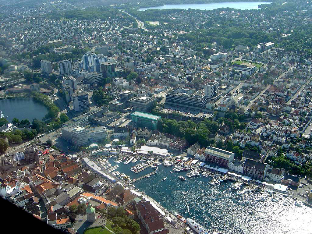 Edited version of Image:Stavanger Sentrum - Airphoto.JPG